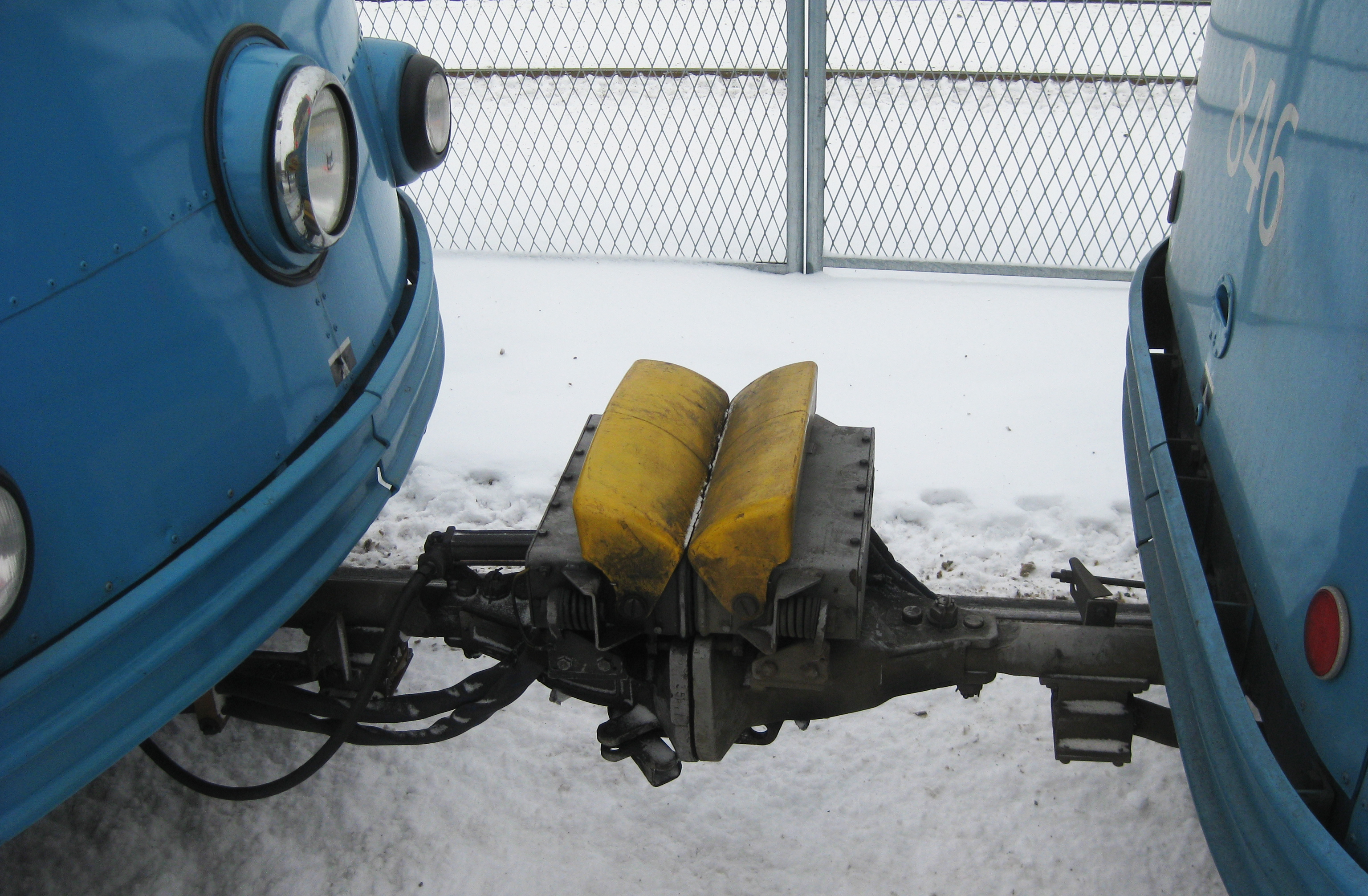 Scharfenberg coupler connecting two M29 trams in Gothenburg, Sweden.